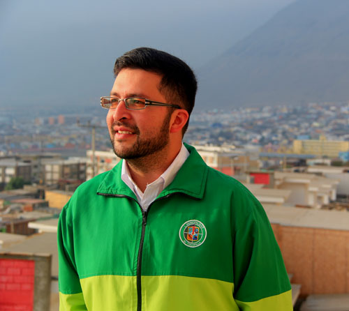 FERNANDO SAN ROMAN 2016